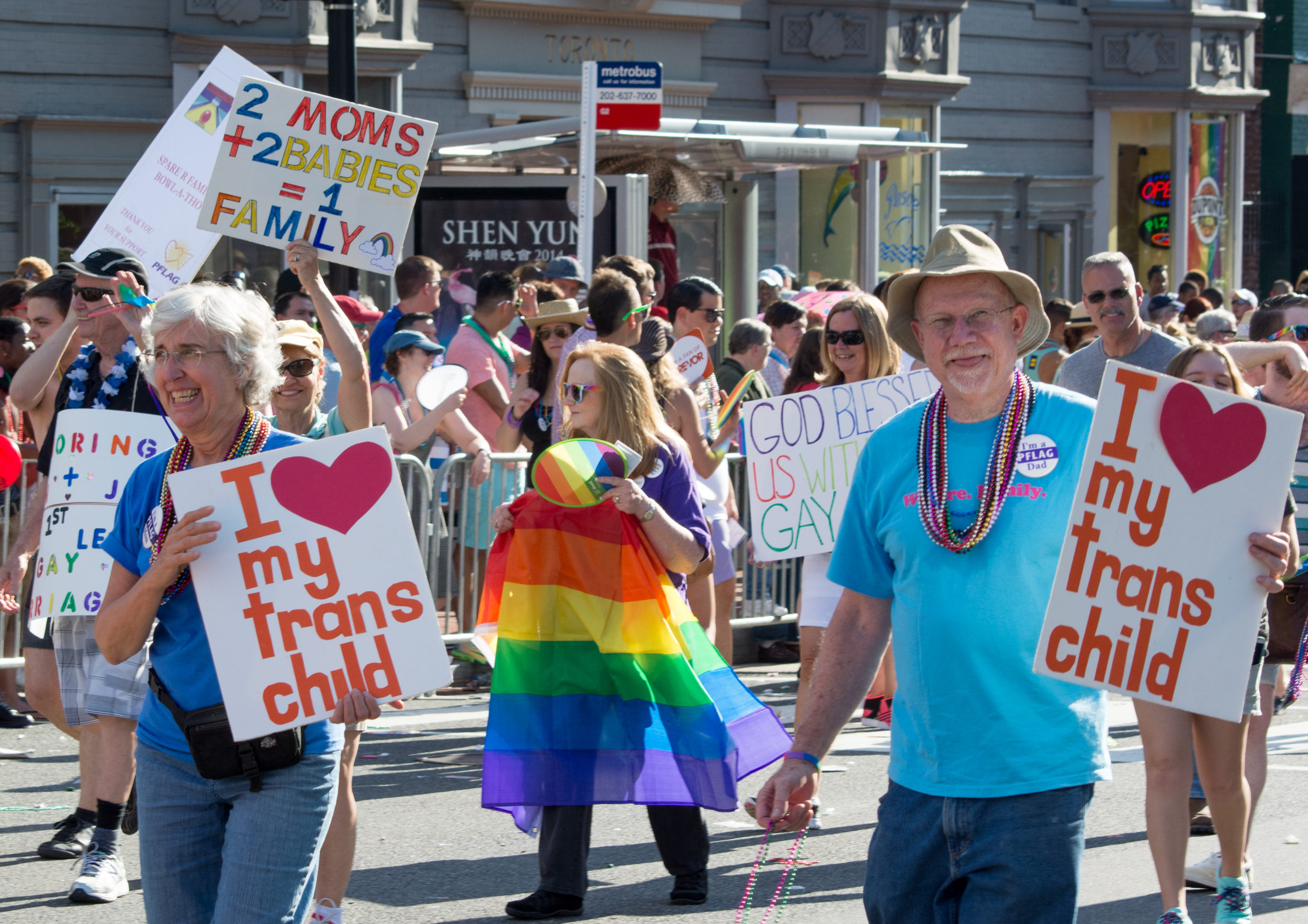 Parents of a transgender child show their support for transgender people during the 2014 D.C. Capital Pride parade, held in Washington, D.C., in the United States on June 7, 2014. These individuals marched as part of a contingent representing the Parents and Friends of Lesbians and Gays (PFLAG) of the Lower Shenandoah, a PFLAG chapter based in Virginia.